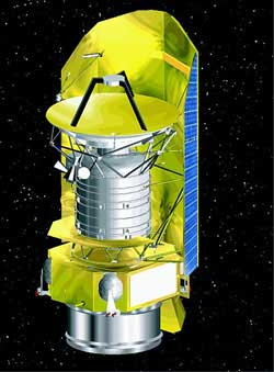 Artist's impression of the Herschel Space Observatory